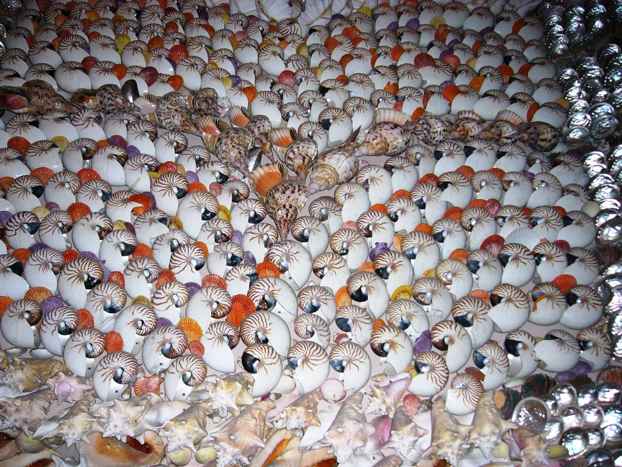 Shell museum